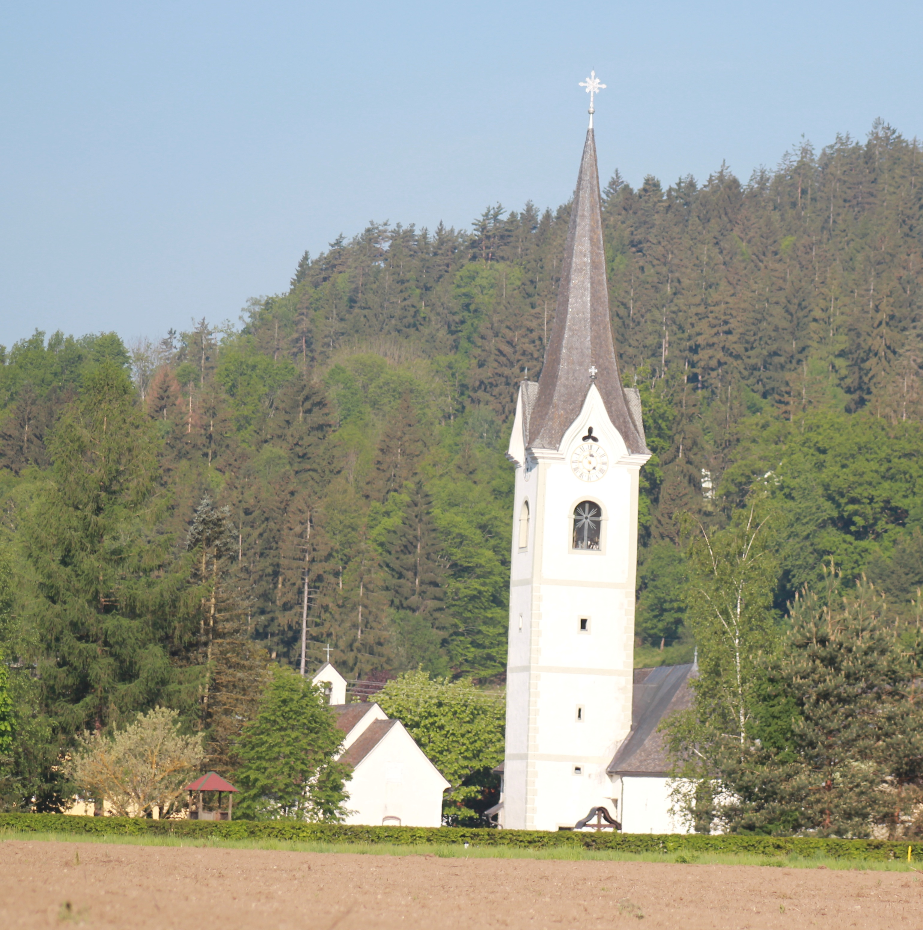 Parish church in Zweikirchen in the community of Liebenfels